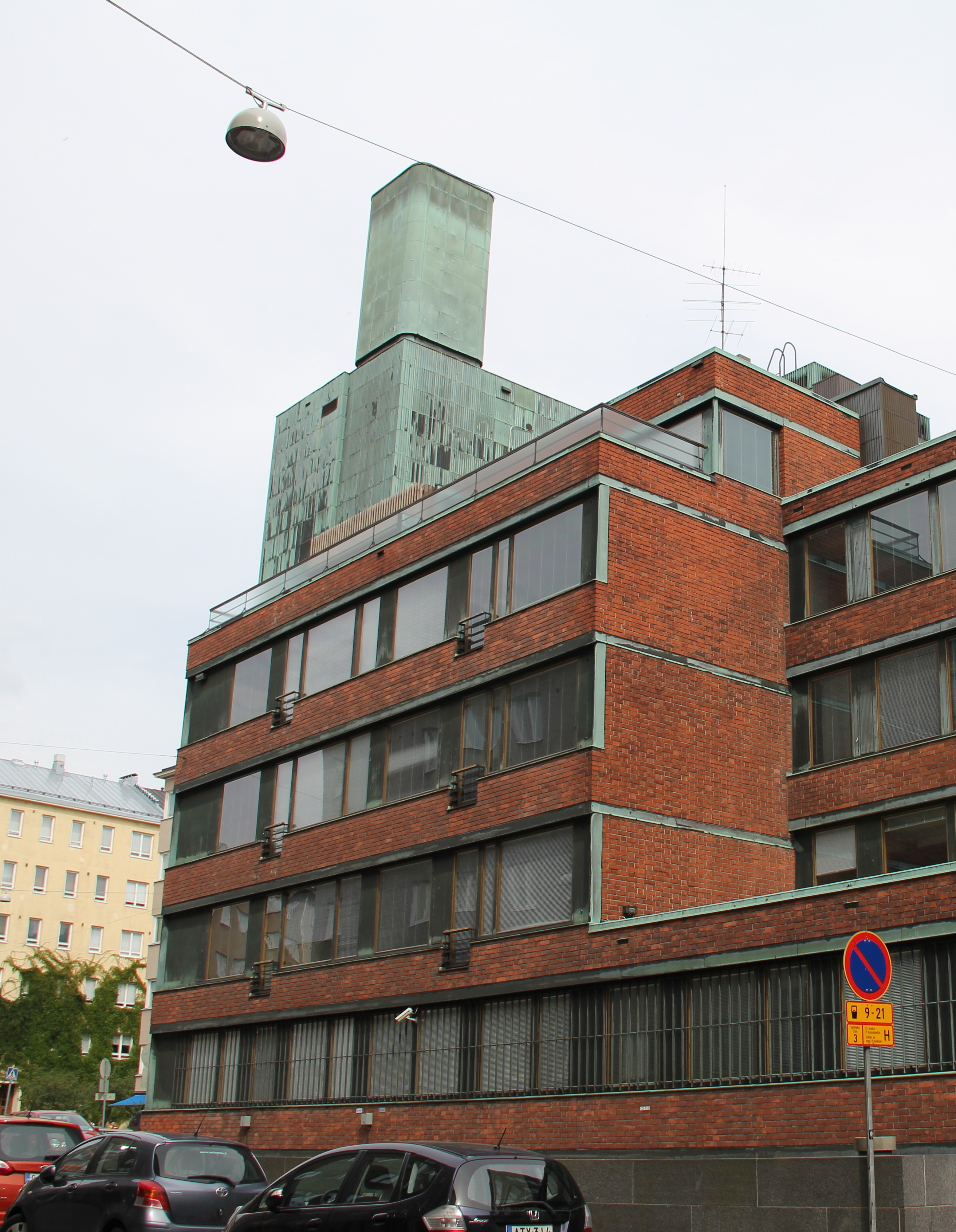 Kansaneläkelaitos headquarters, Taka-Töölö, Helsinki, Finland. Designed by Alvar Aalto, completed in 1956. - Facade towards Minna Canthin katu. Chimney (not in it's original use anymore) disquised as a tower.